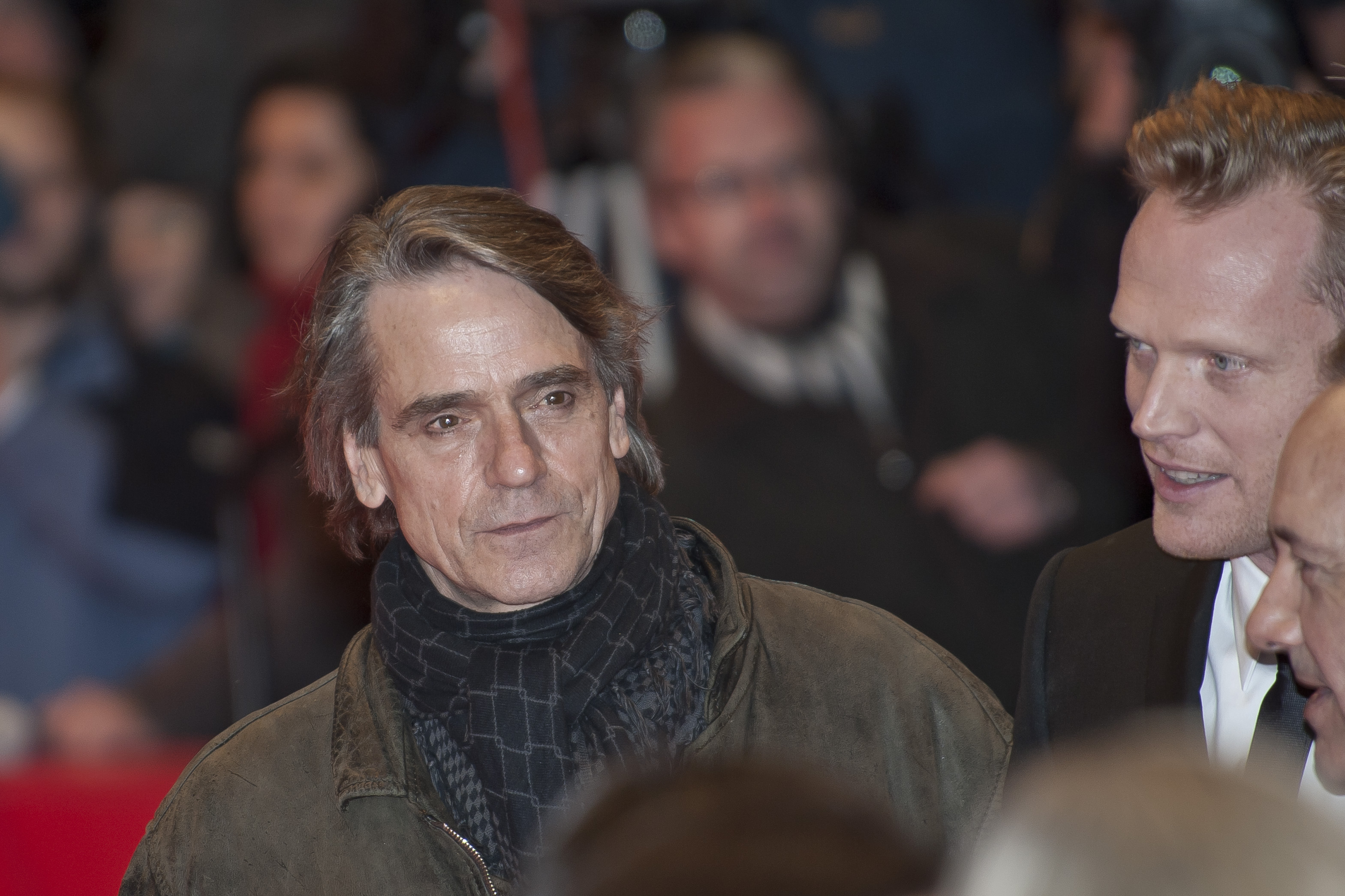 Cast of the movie Margin Call at the Berlin Film Festival 2011 (left to right: Jeremy Irons, Paul Bettany, Kevin Spacey)